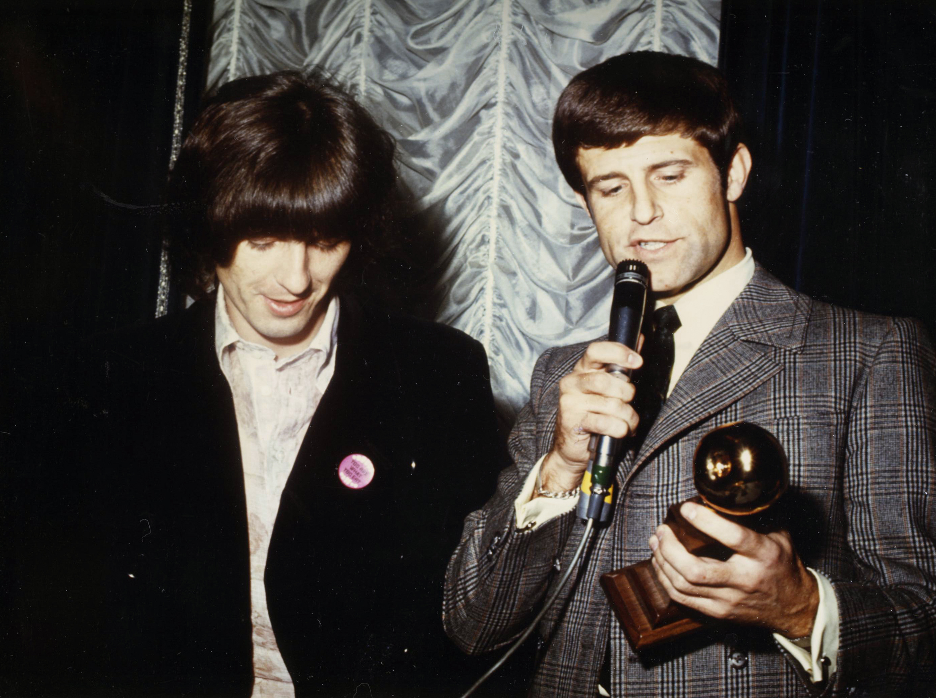 Don Grierson with George Harrison Golden Apple Award on October 31, 1968.